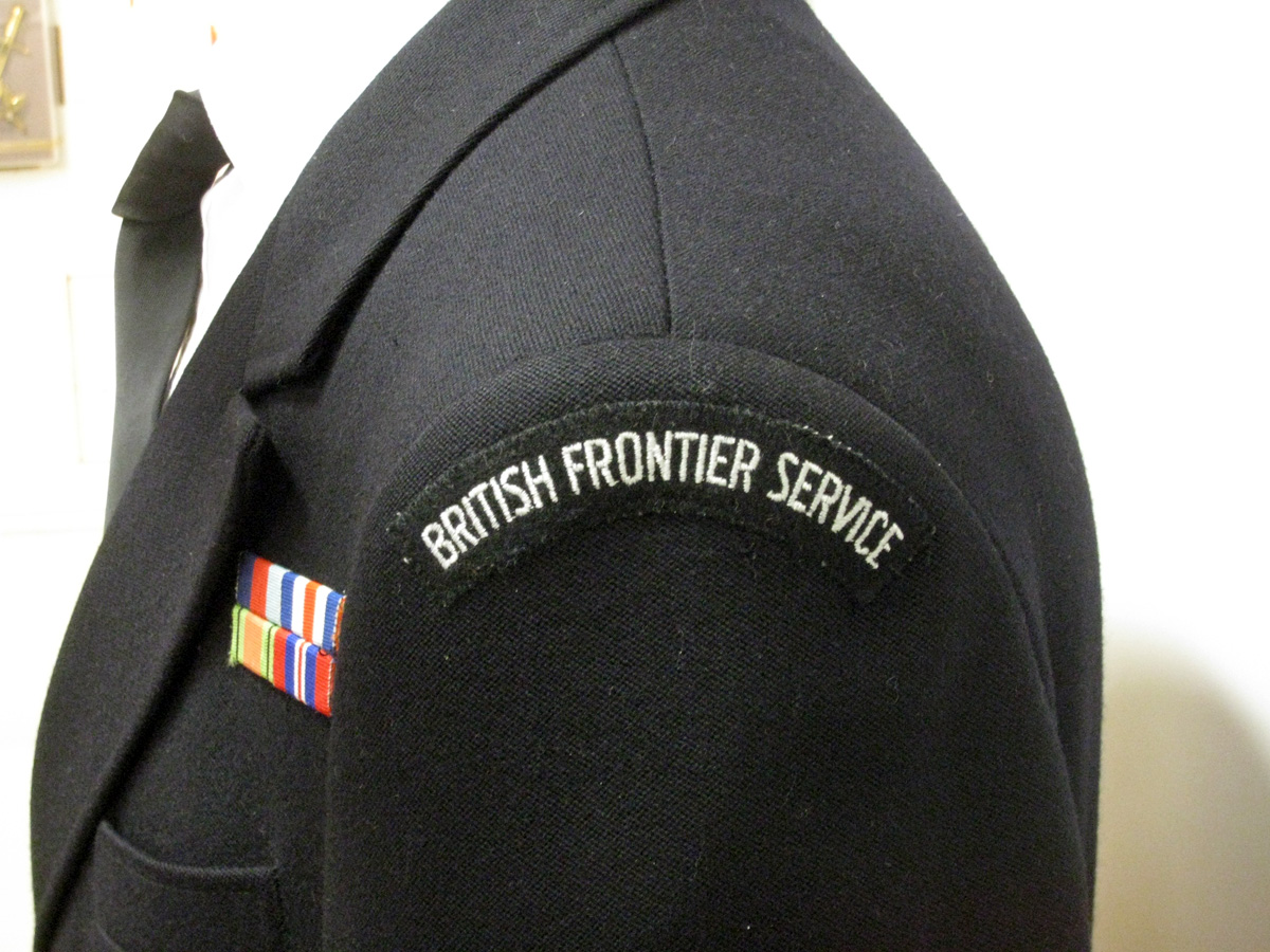 Uniform of the British Frontier Service. Exhibit at the Zonengrenze-Museum, Helmstedt.